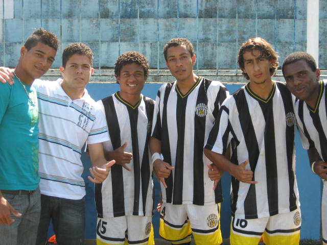 Juventus Futebol Clube Team from Rio de Janeiro